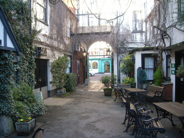 Red Lion pub courtyard, Salisbury